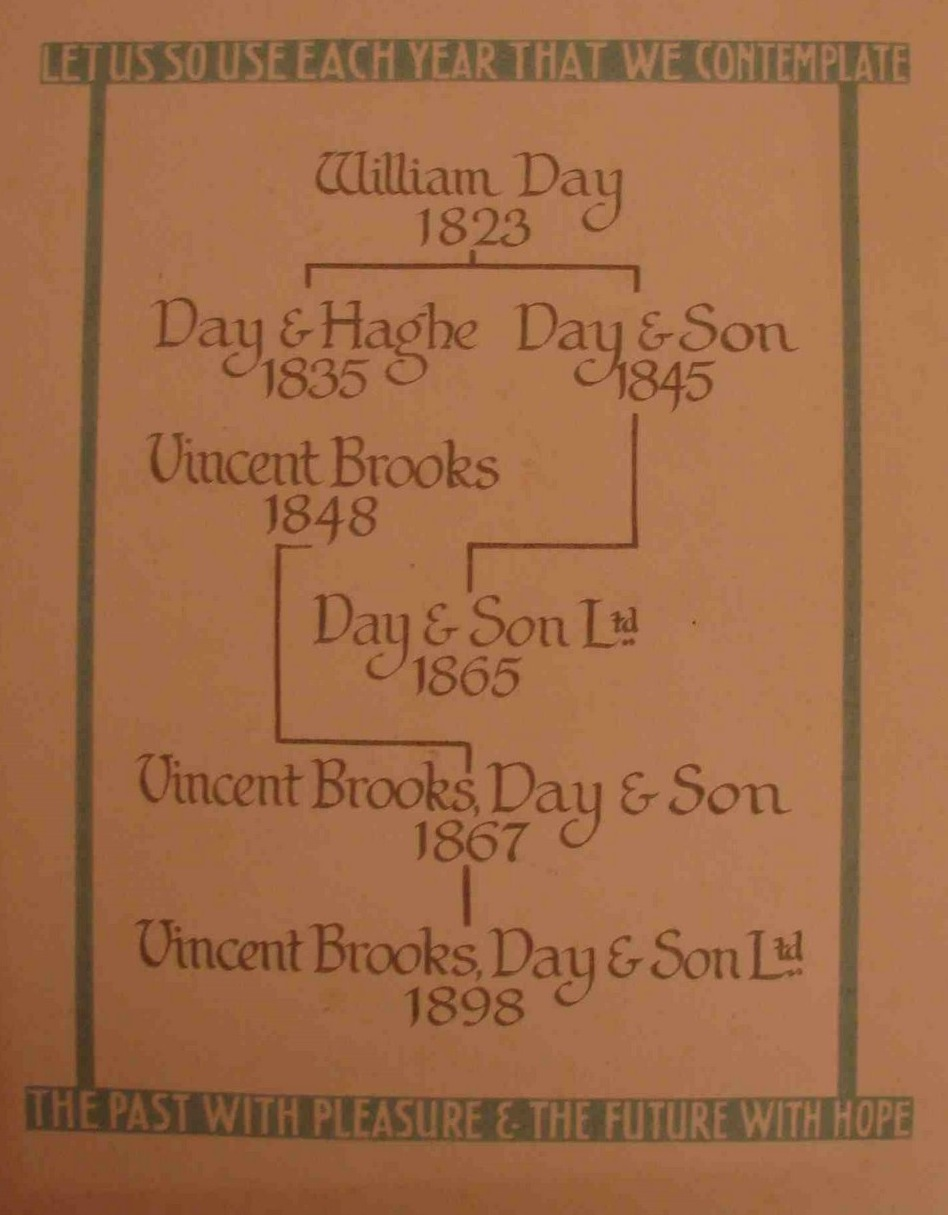 A page of the programme from the celebration of the centenary of Vincent Brooks, Day & Son Ltd showing the firm's history.